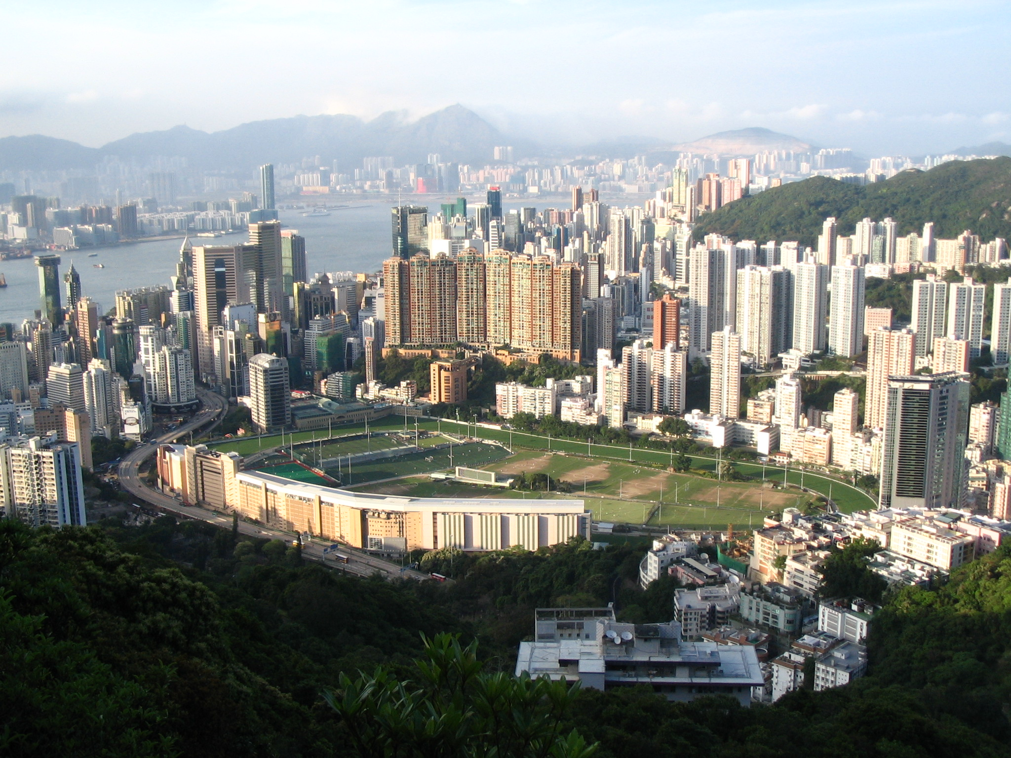 Photo of Happy Valley Racecourse